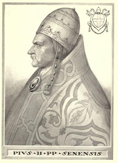 This illustration is from The Lives and Times of the Popes by Chevalier Artaud de Montor, New York: The Catholic Publication Society of America, 1911. It was originally published in 1842.